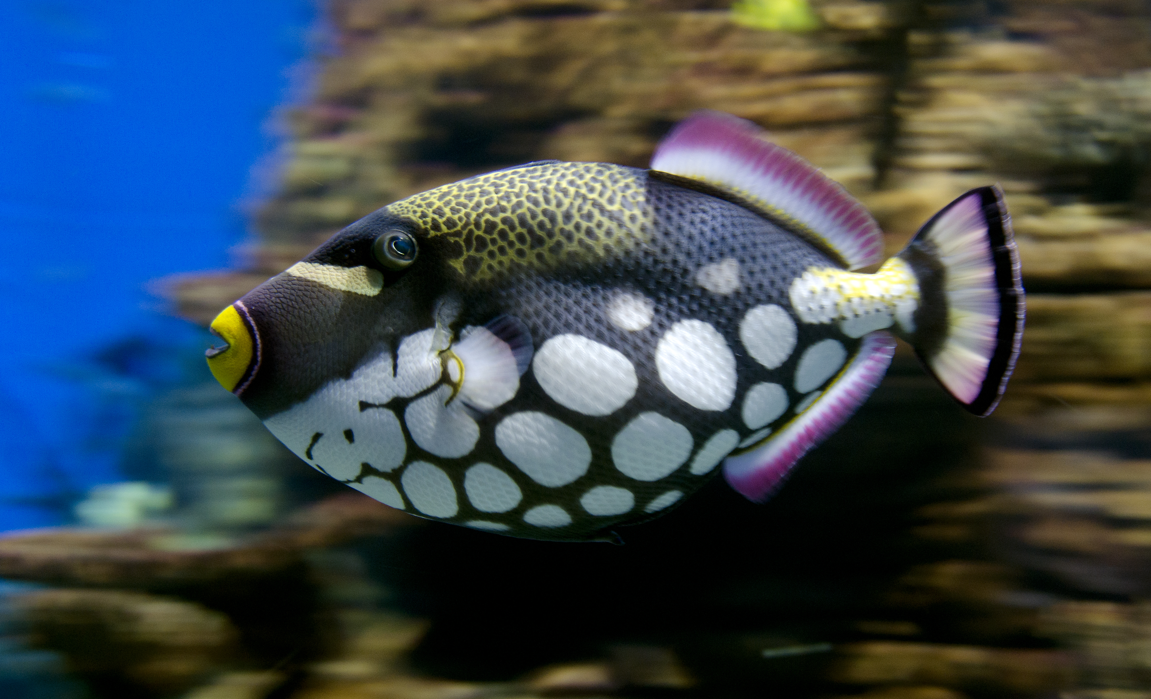 Balistoides conspicillum, Ushaka Sea world